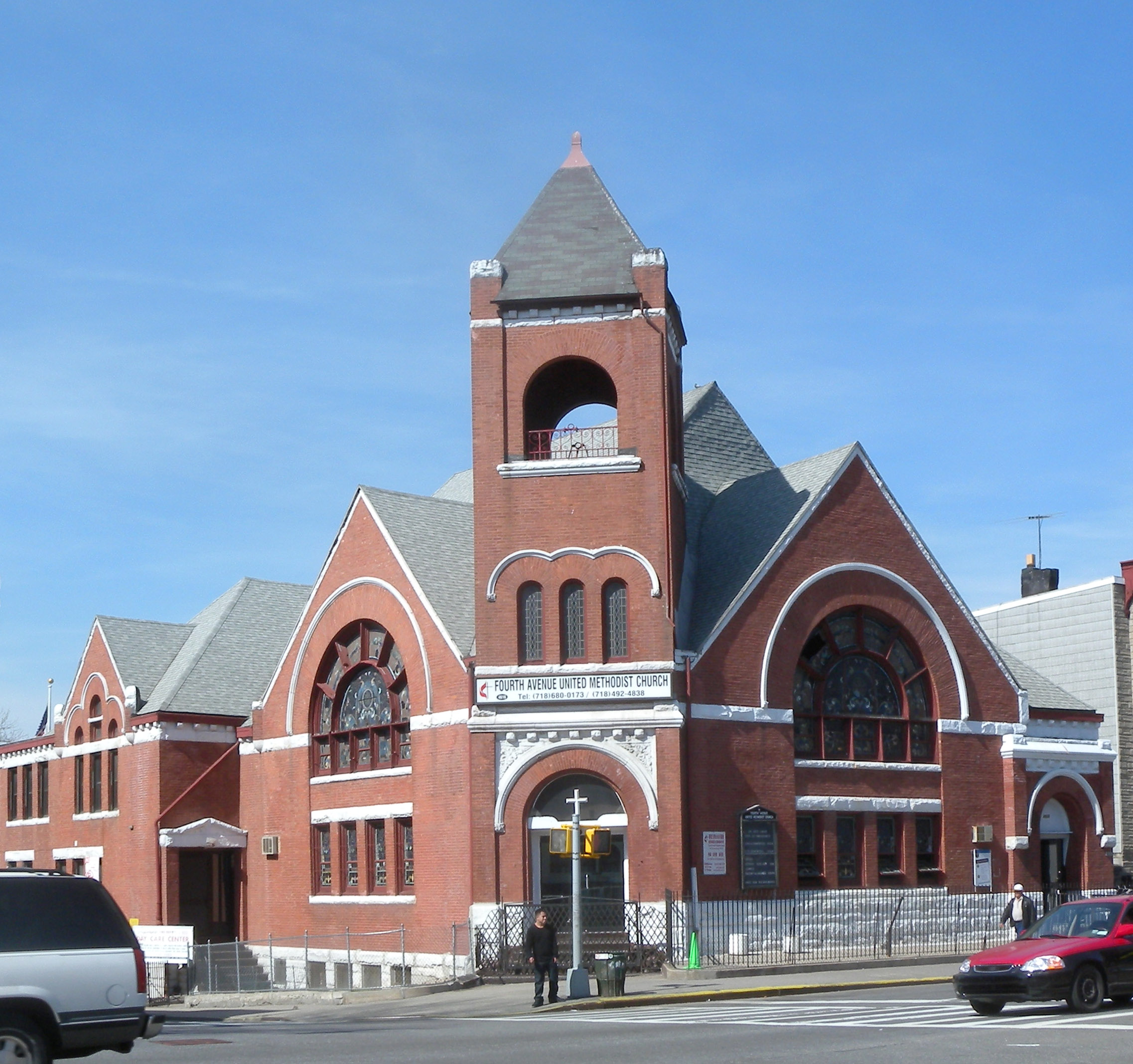 Looking north across 4th Avenue and 47th Street at Fourth Avenue United Methodist Church on a sunny afternoon.